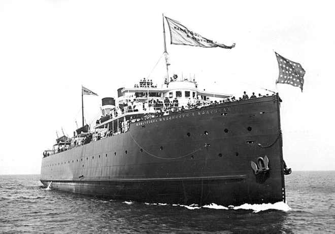 The train ferry Manistique-Marquette & Northern No. 1 was a train ferry built in 1903, in 1909 she was renamed Milwaukee. She sank in 1929.